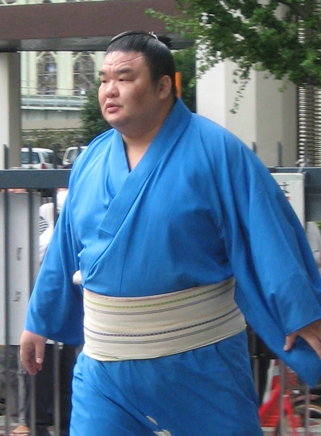 Picture taken at Sep 2008 tournament